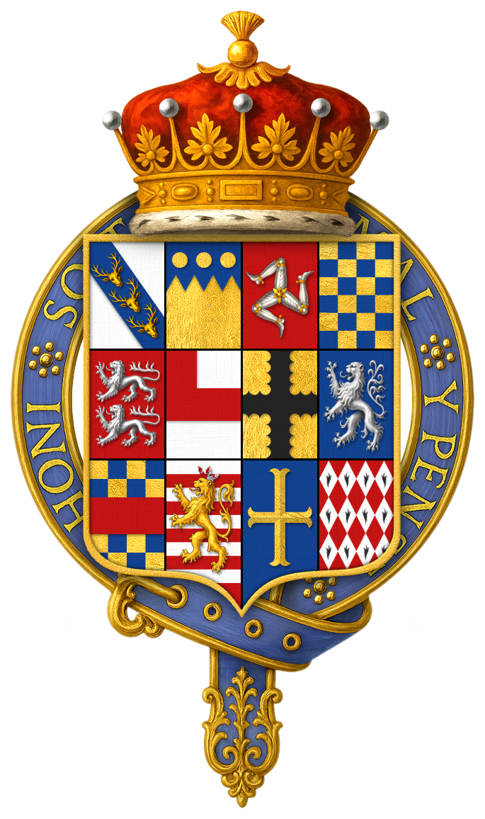 Quartered arms of Sir James Stanley, 7th Earl of Derby, KG. 12 quarters: 1: Stanley; 2: Lathom of Lathom House, Lathom, Cheshire; 3: Lord of Isle of Man; 4: de Warenne, Earl of Surrey; 5: Strange of Knockyn; 6: Woodville; 7: Mohun of Dunster, Somerset, Baron Mohun